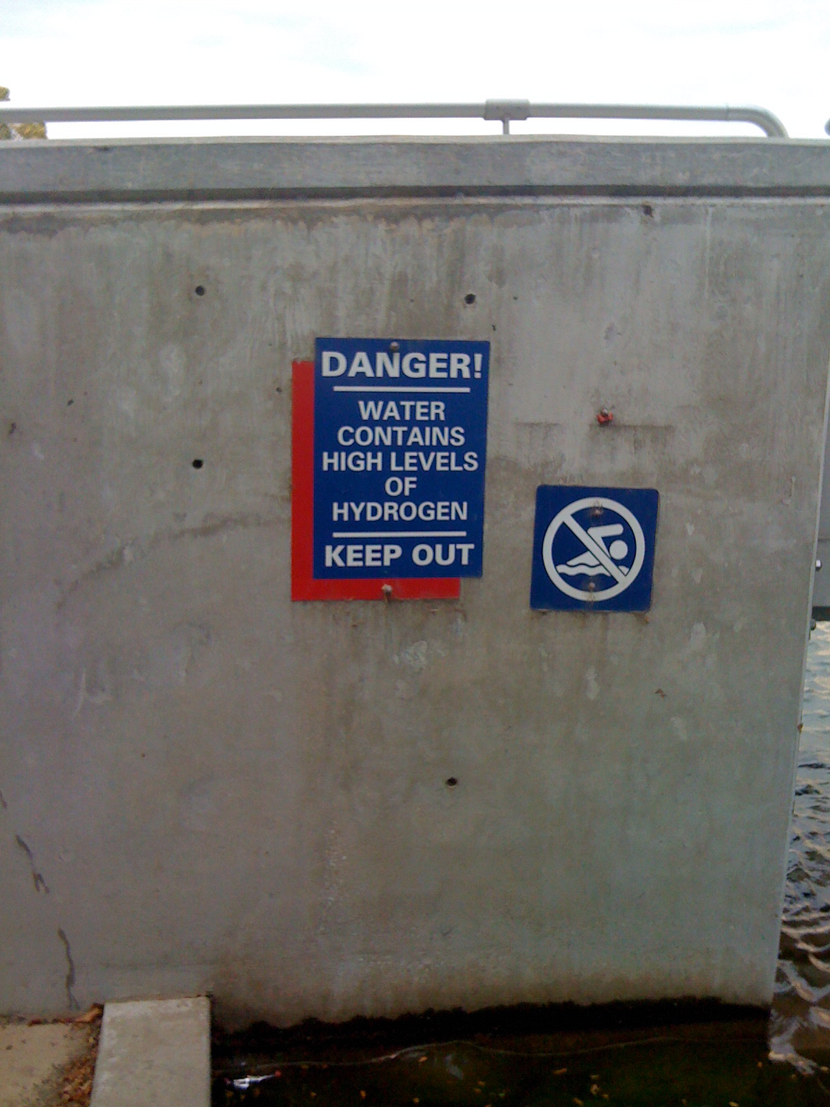 Danger! Water contains high levels of hydrogen. Keep out.